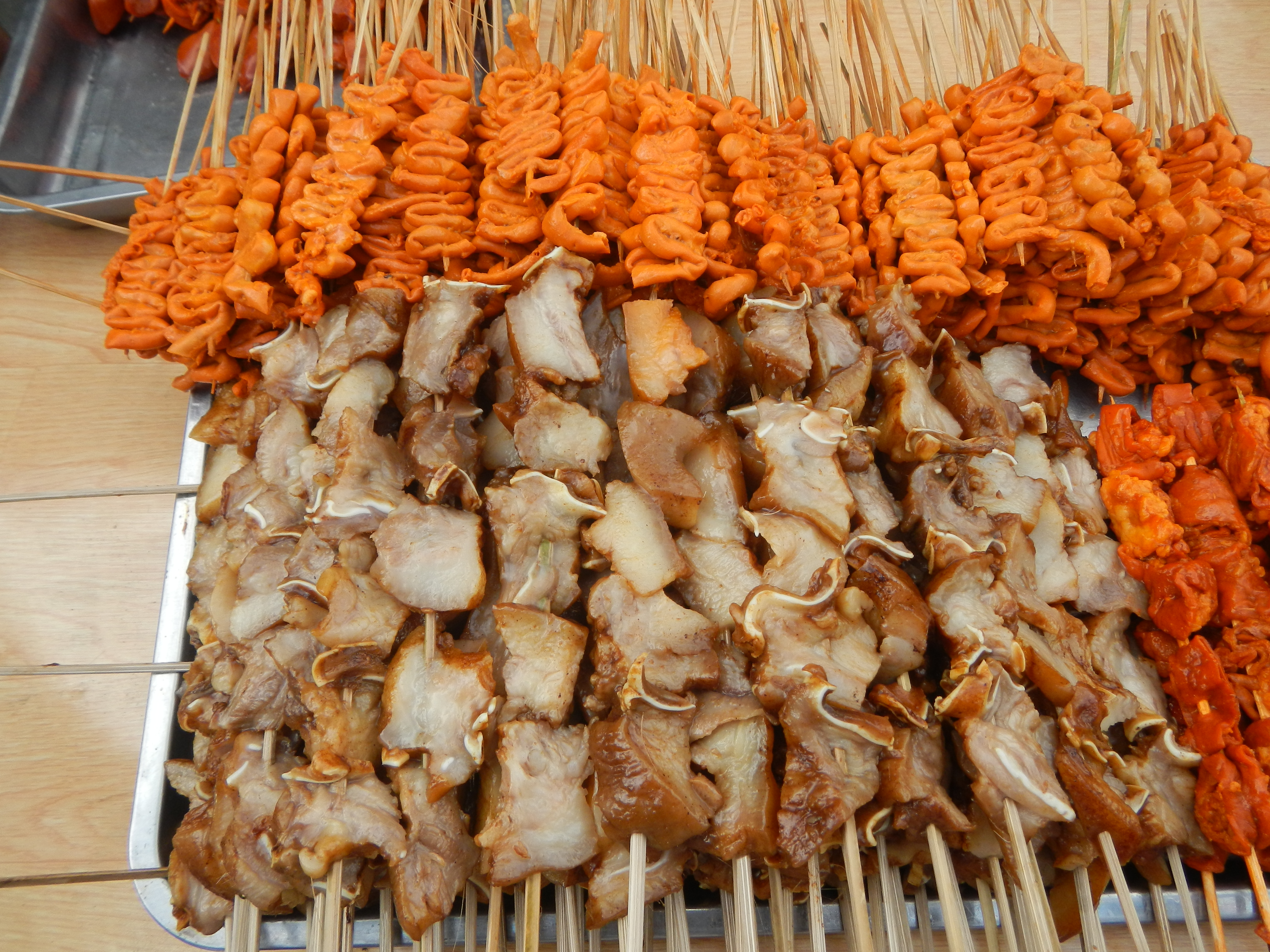 J. Figueras (Bustillos) Street-Earnshaw Street (in Plaza Jose Figueras Street (formerly Bustillos Street), in List of barangays of Metro Manila Legislative districts of Manila Barangays 401, 402 & 403, Zone 41, 404, 405, 406, 407, 408, 409, 410, 411, 412, 413, 414, 415 & 416, Zone 42, District IV, Sampaloc, Manila, City of Manila (accessed from Legarda Street List of roads in Metro Manila corner Lardizabal Street corner Manrique Street).